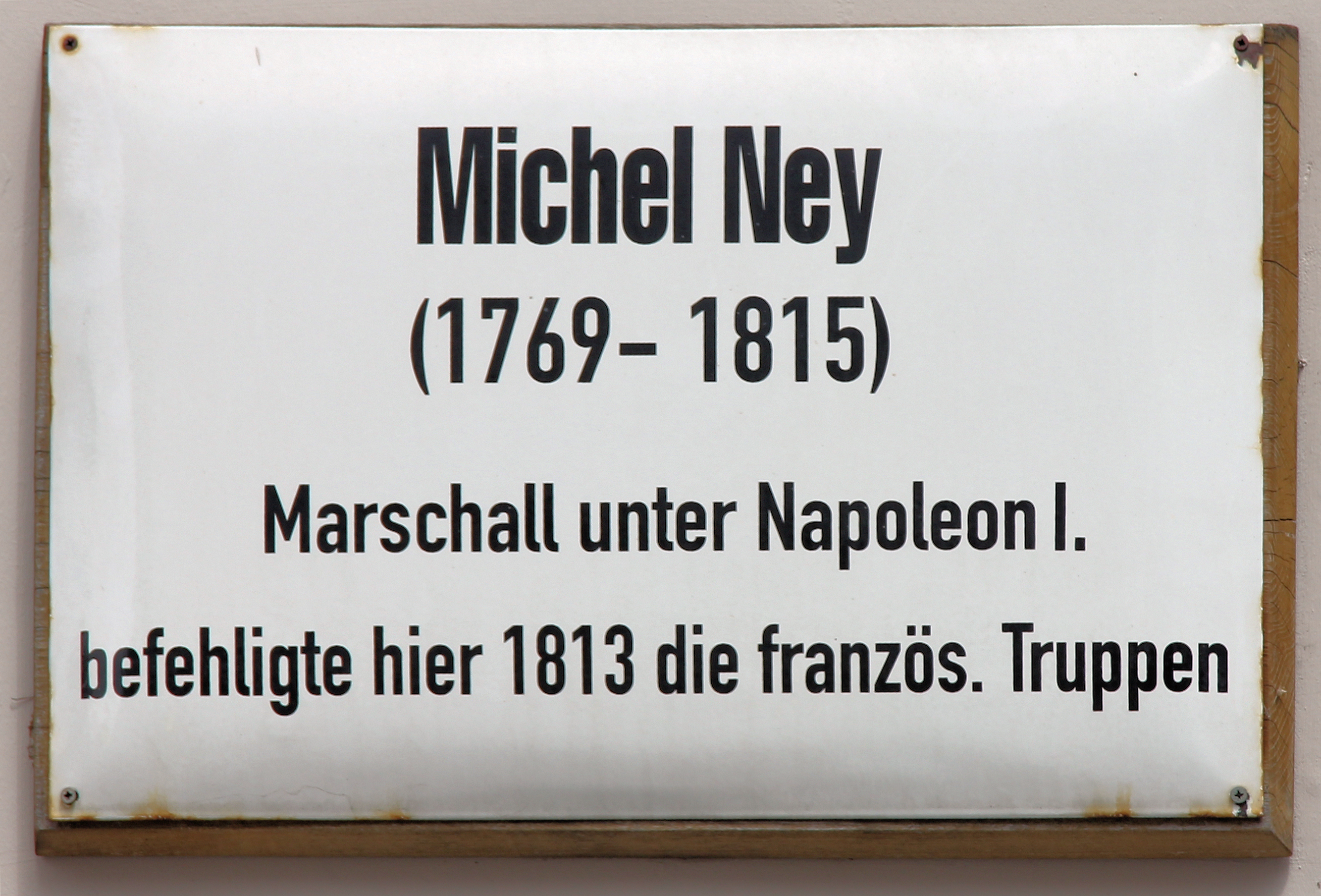 Memorial plaque, Michel Ney, Schloßplatz, Lutherstadt Wittenberg, Germany Koordinate:51°51′59″N 12°38′18″E / 51.86639°N 12.63833°E